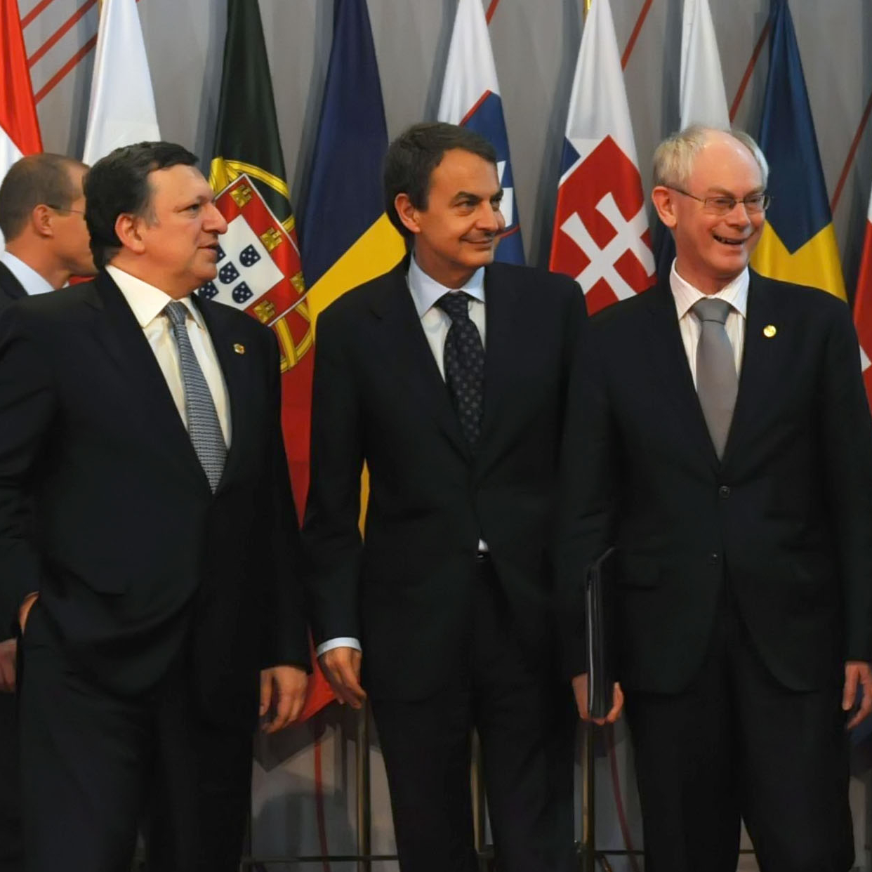 The Spanish Prime Minister Jose Luis Rodriguez Zapatero, President of the European Council, Herman van Rompuy and European Commission President Jose Manuel Durao Barroso, Madrid